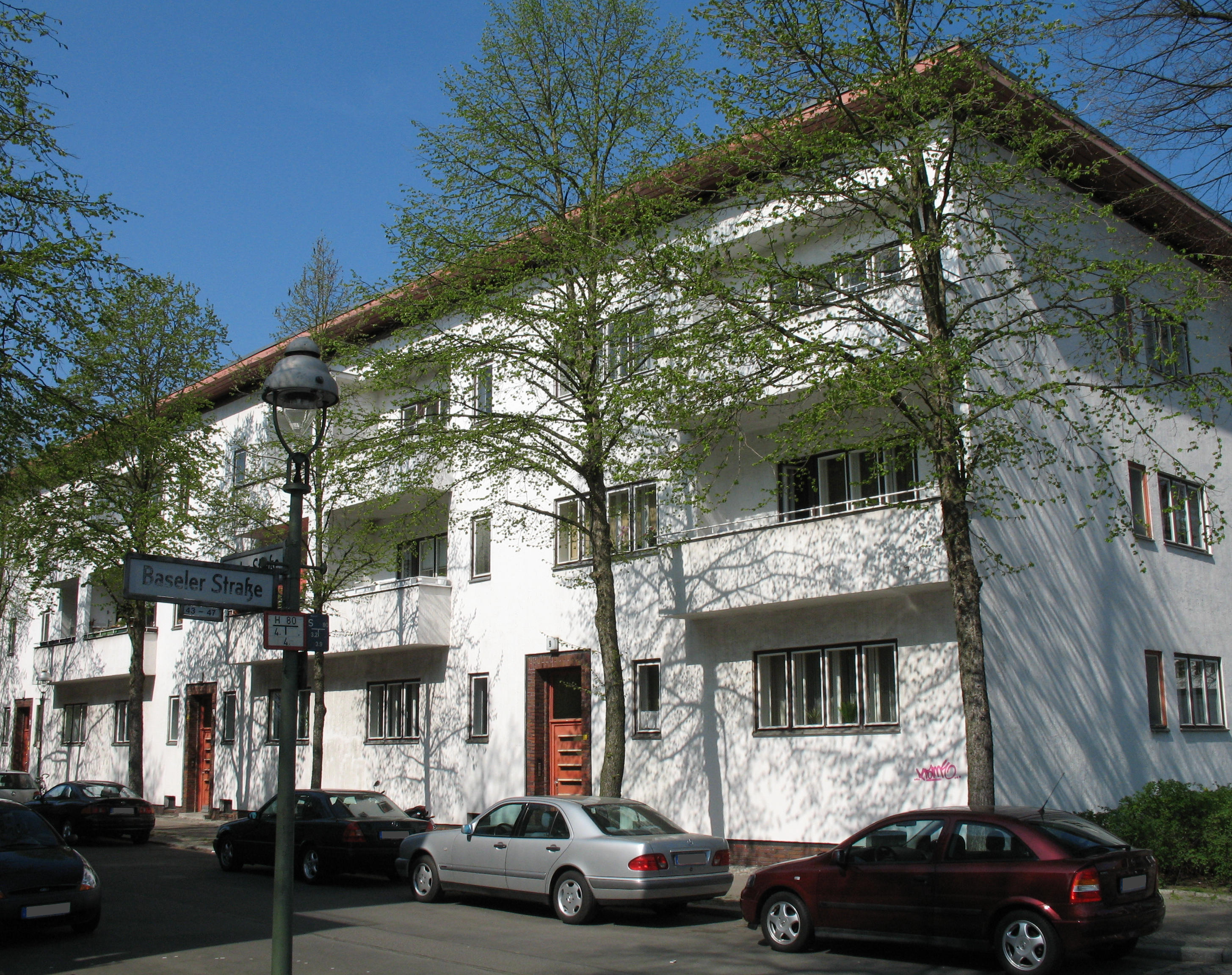 Weiße Stadt (White City) in Berlin-Reinickendorf, Germany